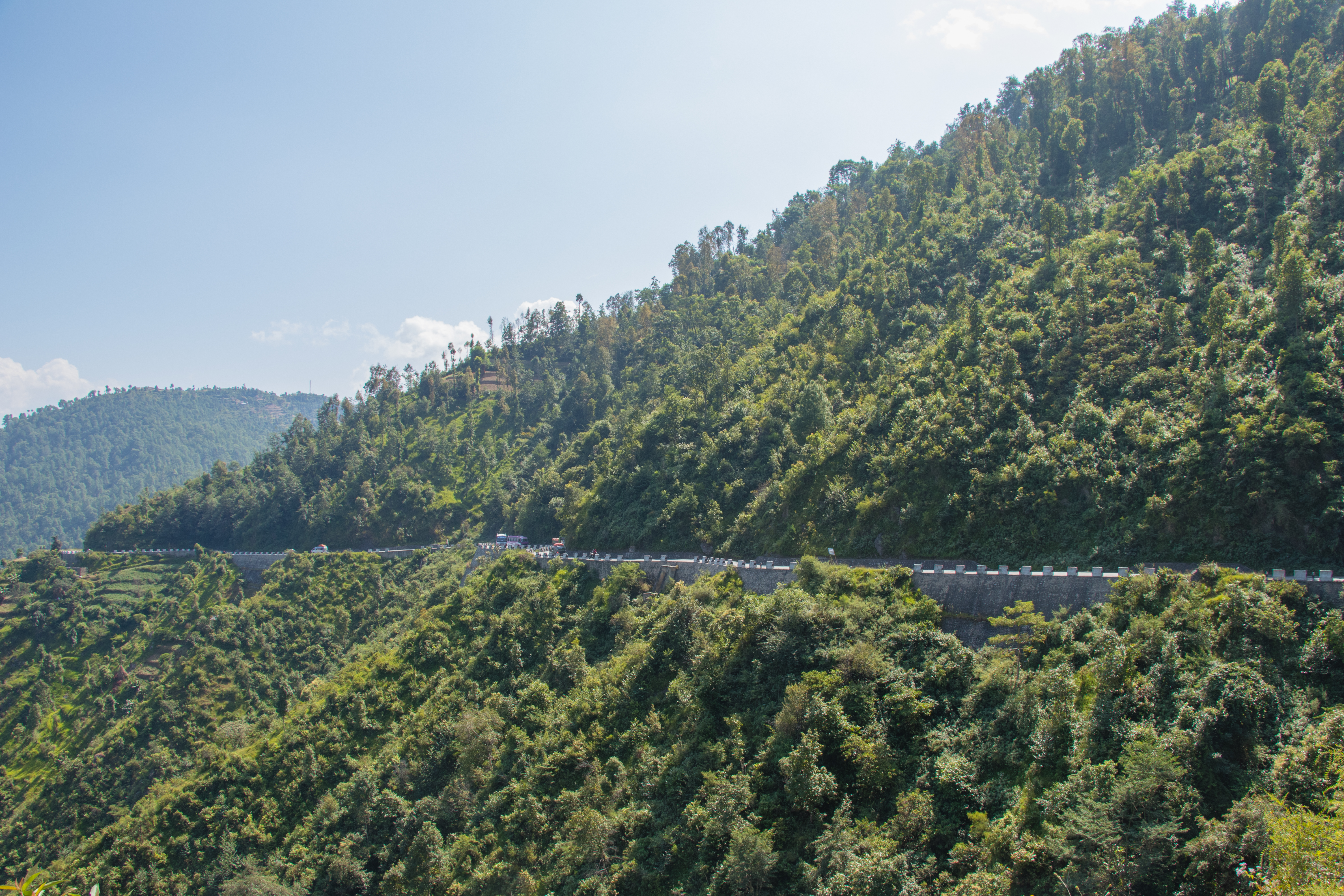 B.P Highway